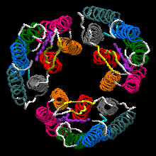 Bacteriorhodopsin - oligomer (trimer) with retinal molecule in each subunit (PDB ID: 1X0S).This image was created with RasTop (Molecular Visualization Software) and Adobe Photoshop Elements.